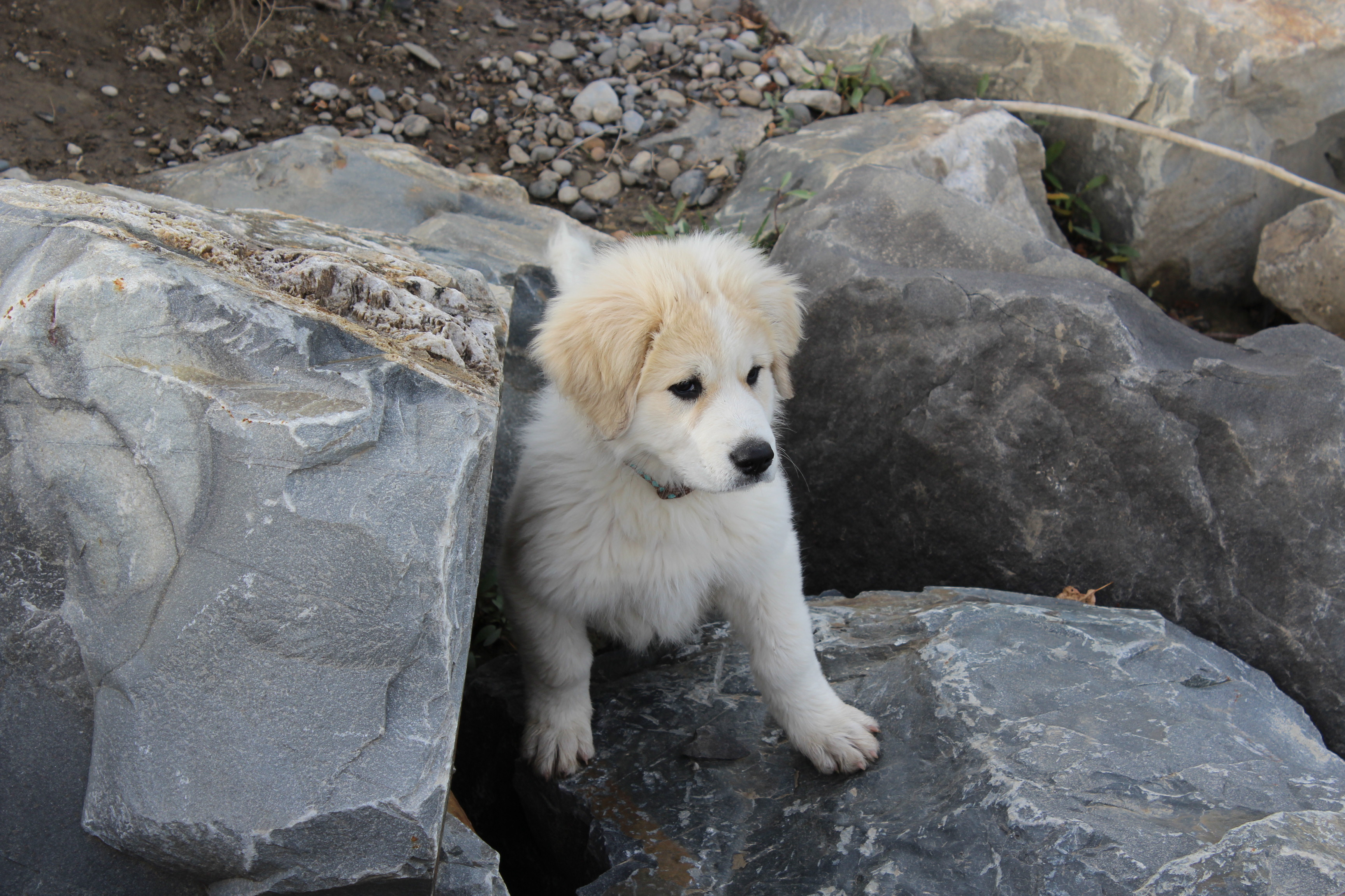 Great Pyrenees pup